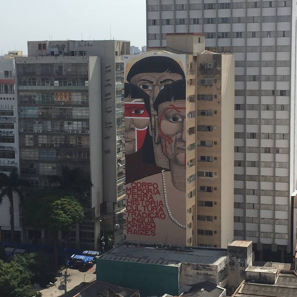 Mural by Nunca in Sorocaba for the 2sd edition of Frestas Triennial. 38 meters high.